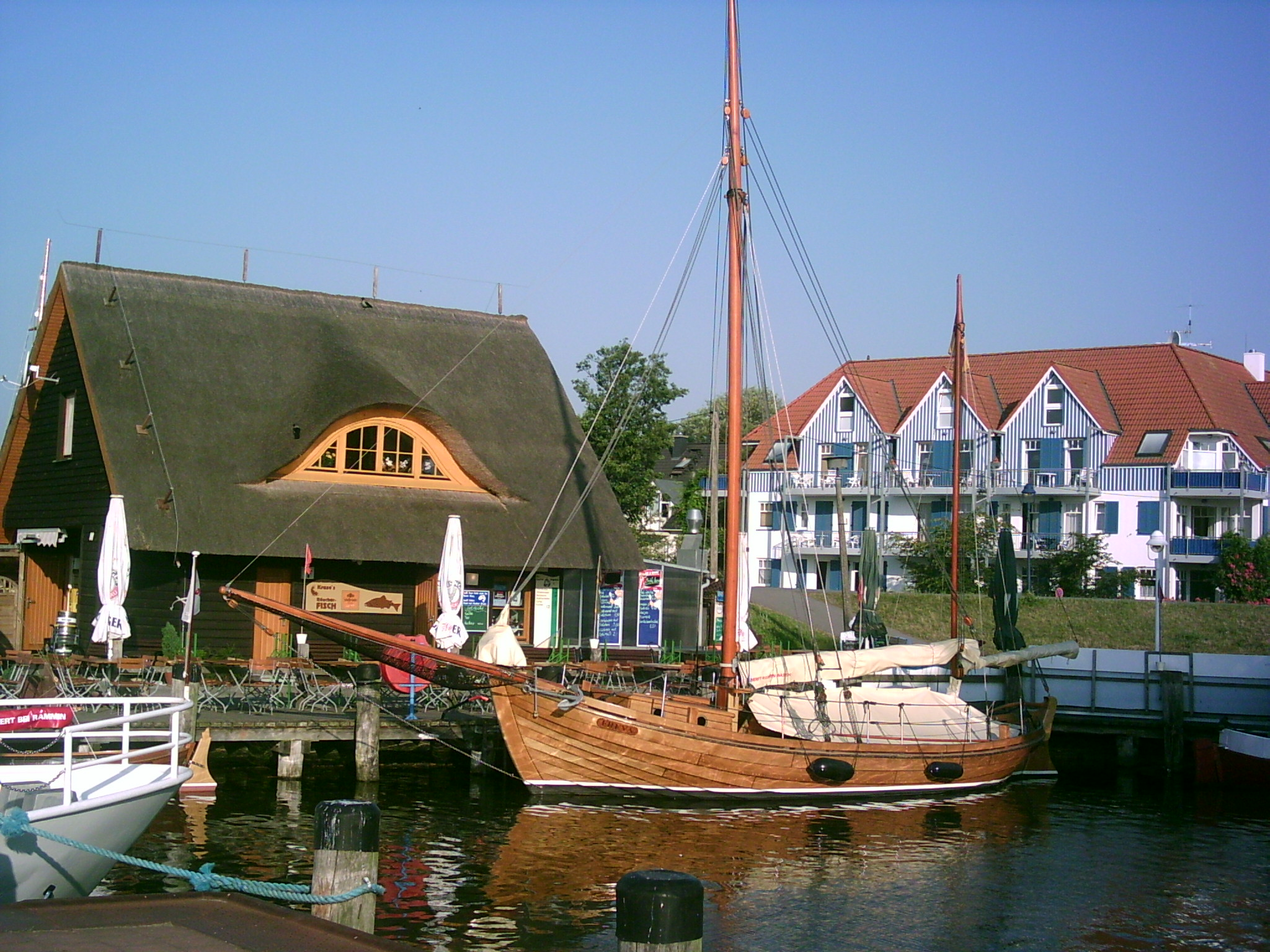 The Port of Zingst in Mecklenburg-Western Pomerania.